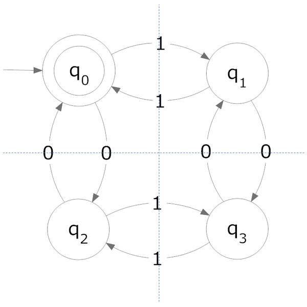 Deterministic finite automaton that accepts only the strings with an even number of zeros and an even number of ones. In state q0, q1, q2, q3, an even/even, even/odd, odd/even, and odd/odd number of 0s/1s has been read, respectively.